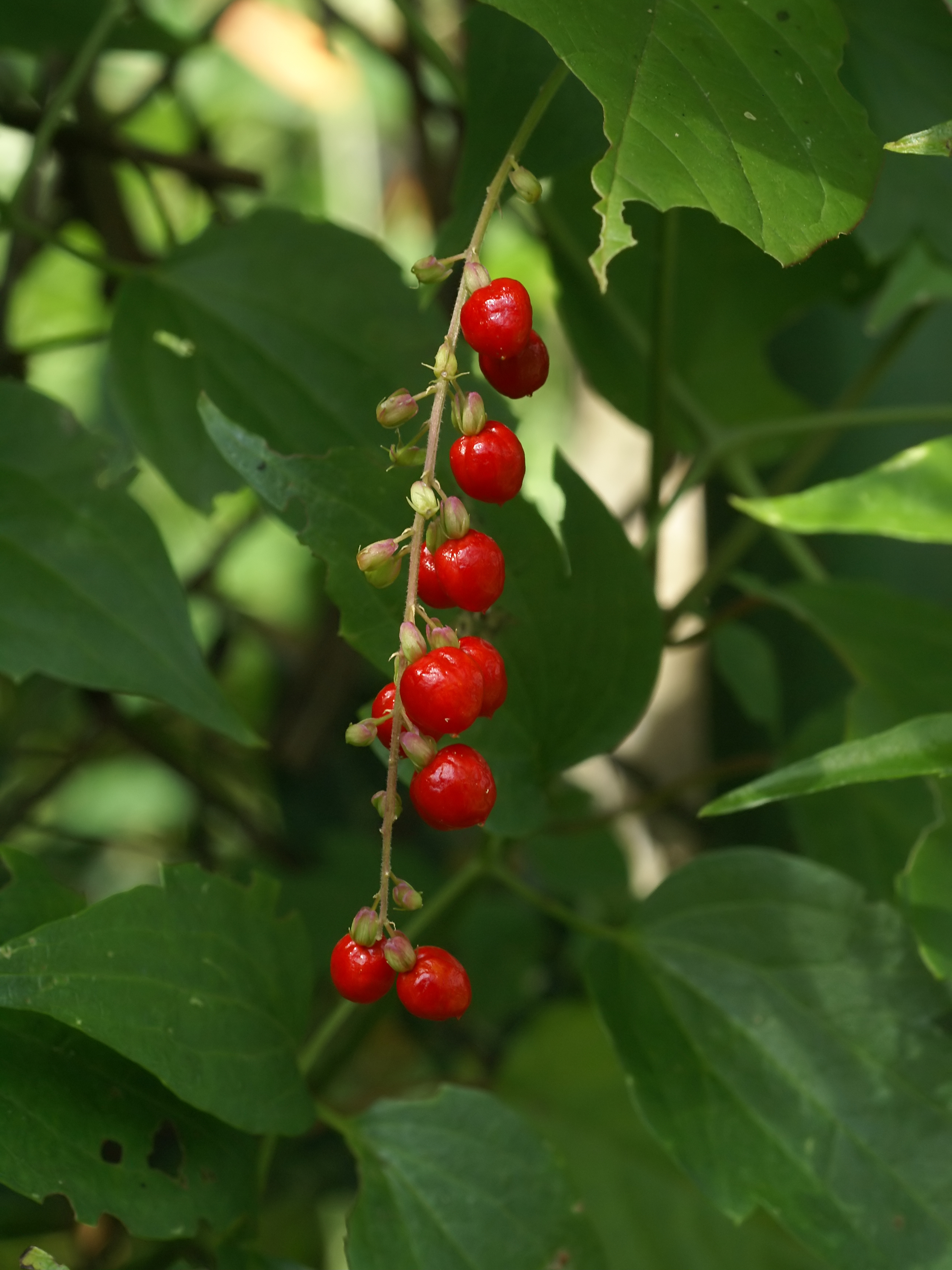 Pigeonberry near La Garita, Alajuela, Costa Rica.